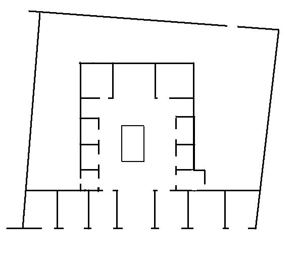 A rough plan of the House of Sallust in Pompeii.